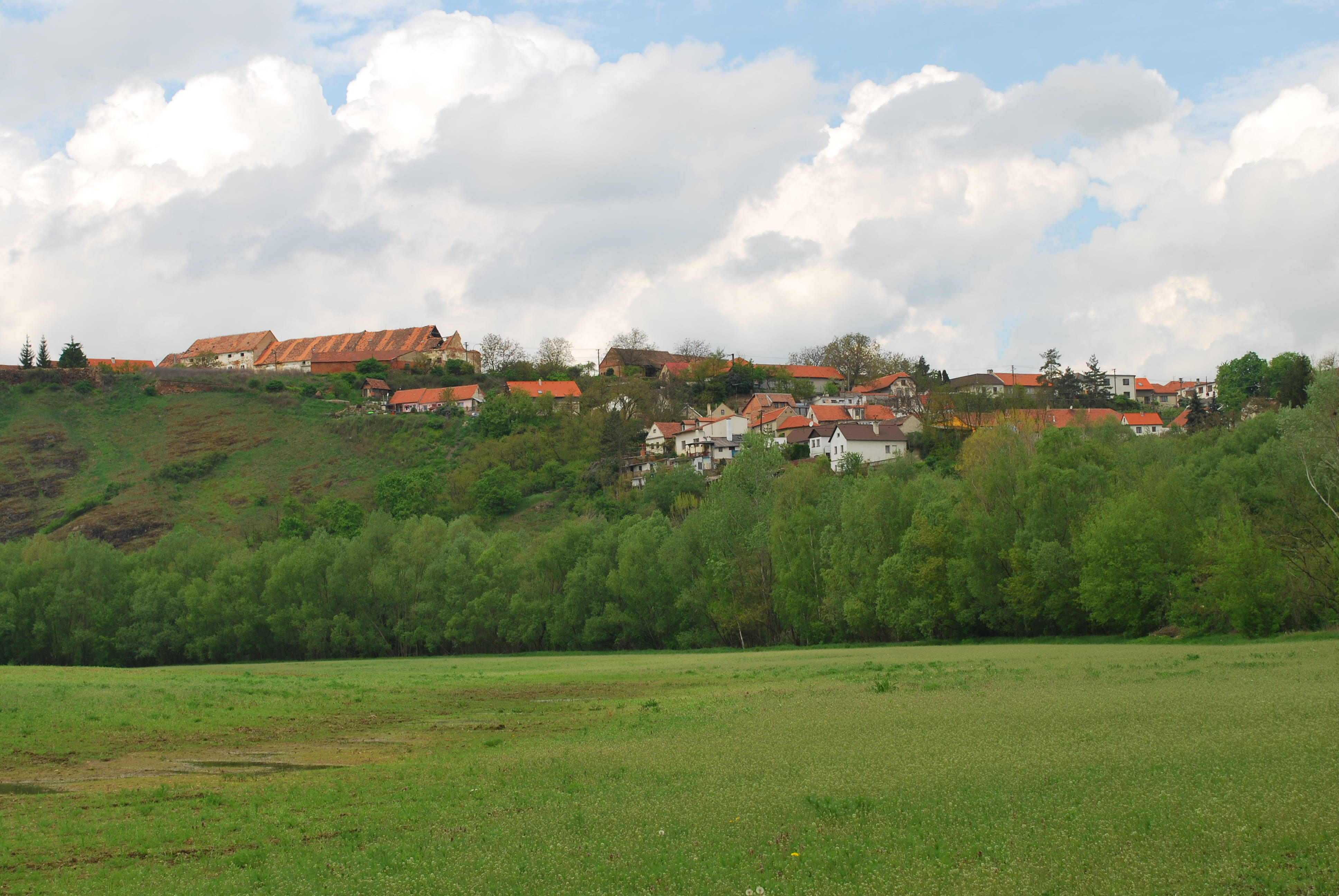 Ivančice in Brno-venkov District, part Budkovice, Czech Republic. General view from Rokytná river.